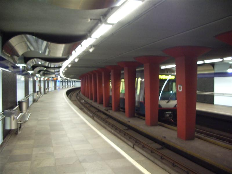 The 'Stadhuis' metrostation in Rotterdam.